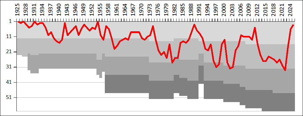 A chart showing the progress of GAIS through the Swedish football league system. Horizontal black lines represent league divisions.